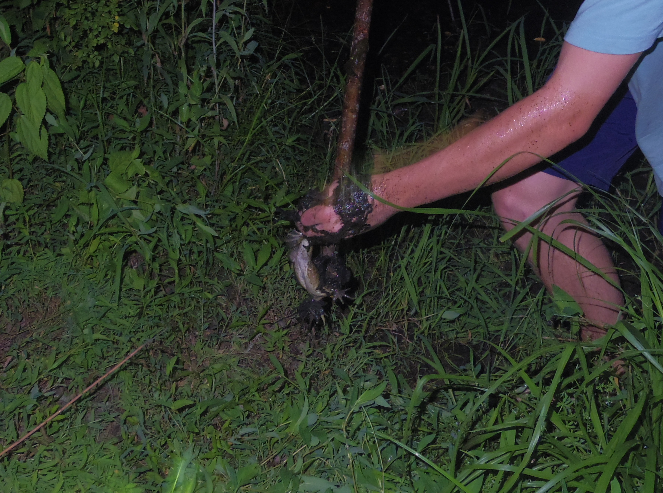 An American bullfrog caught on a homemade frog gig in the Southern United States. (cropped picture)